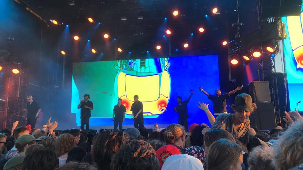 Brockhampton performing at Listen Out 2017